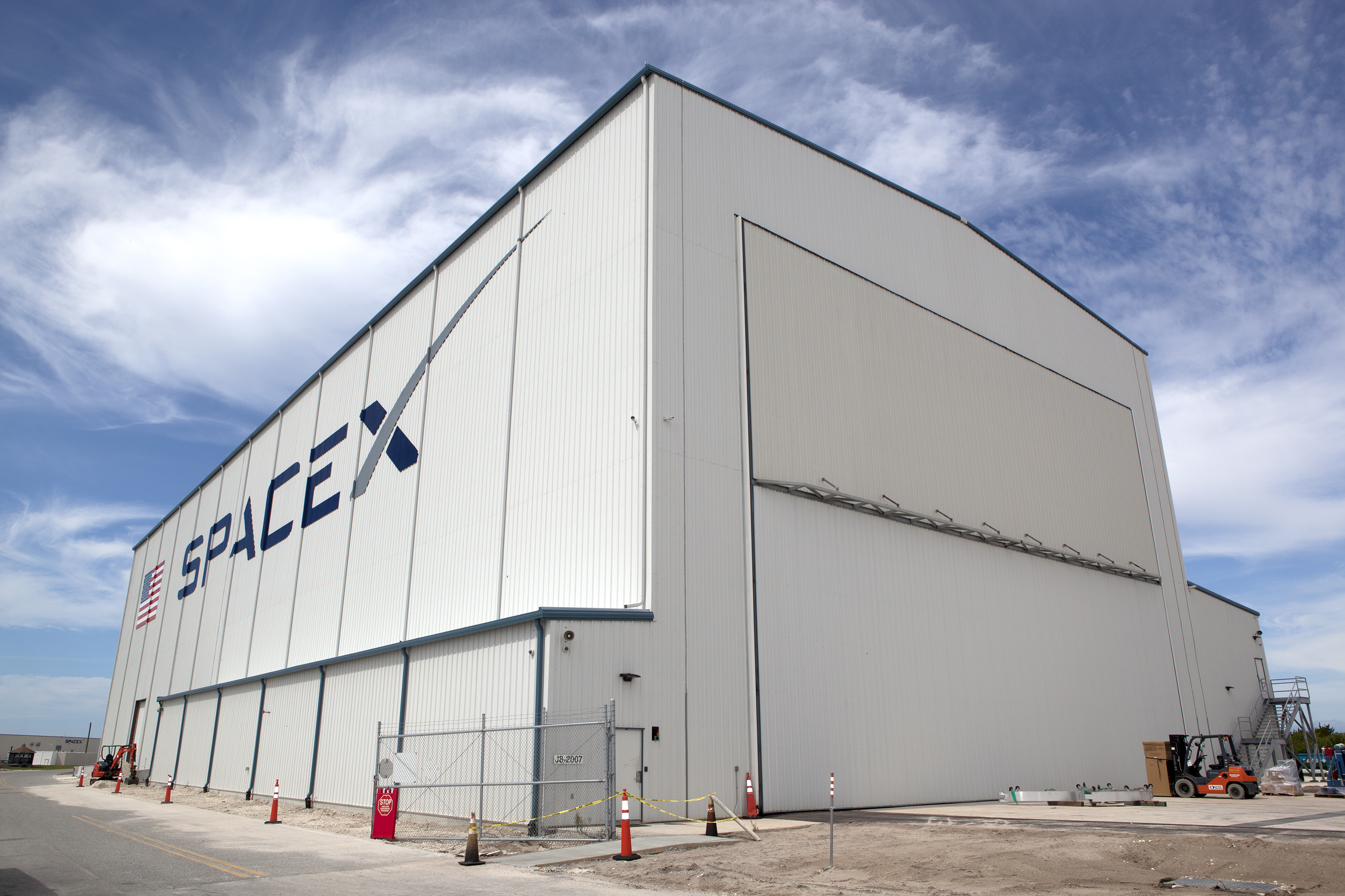 SpaceX built a horizontal processing facility at the base of Launch Complex 39A where it will process rockets and spacecraft before they are transported to the pad for launch.